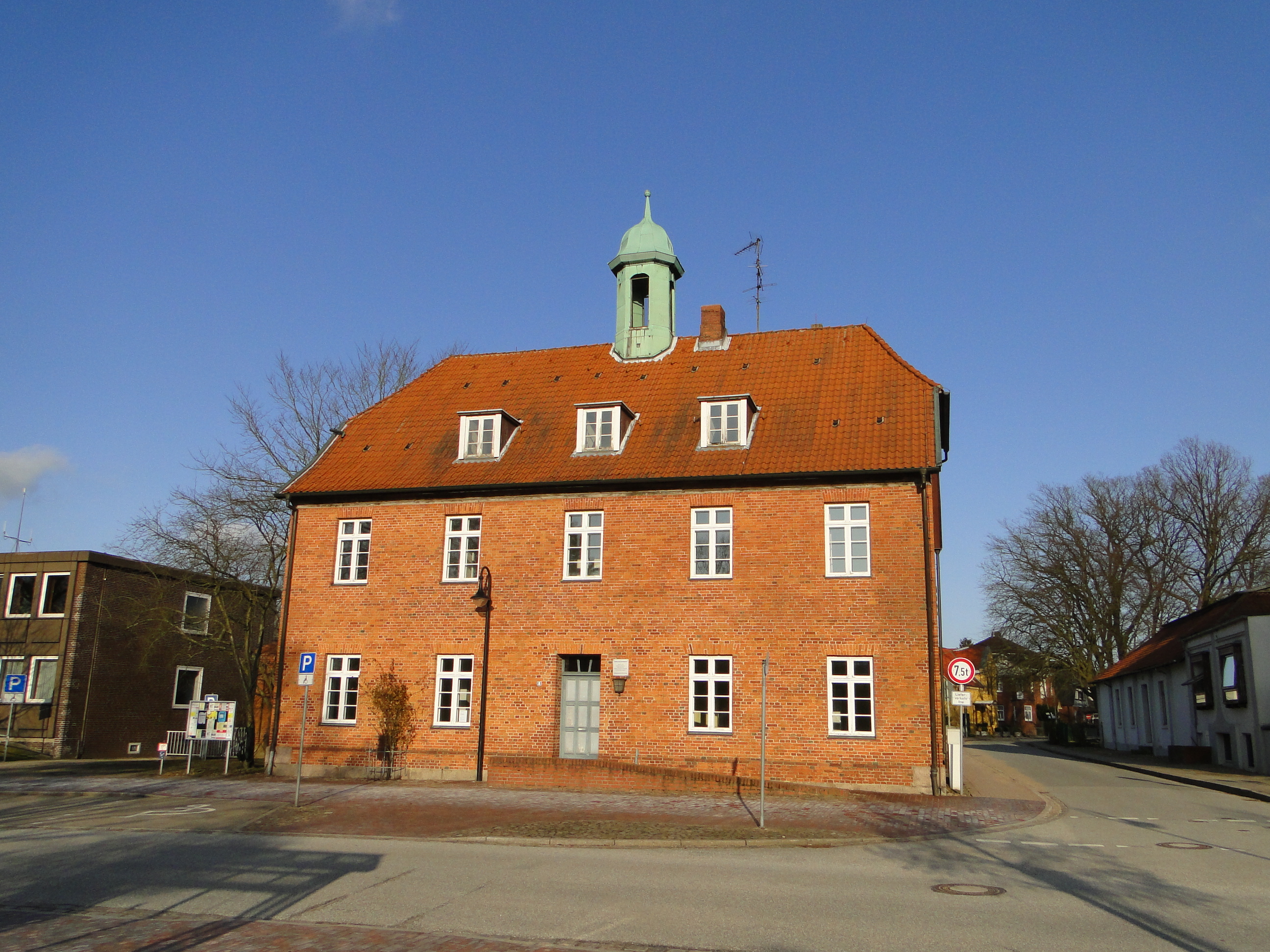 Bürgerhaus in Schwarzenbek, disctrict Herzogtum Lauenburg, Schleswig-Holstein, Germany; former county court